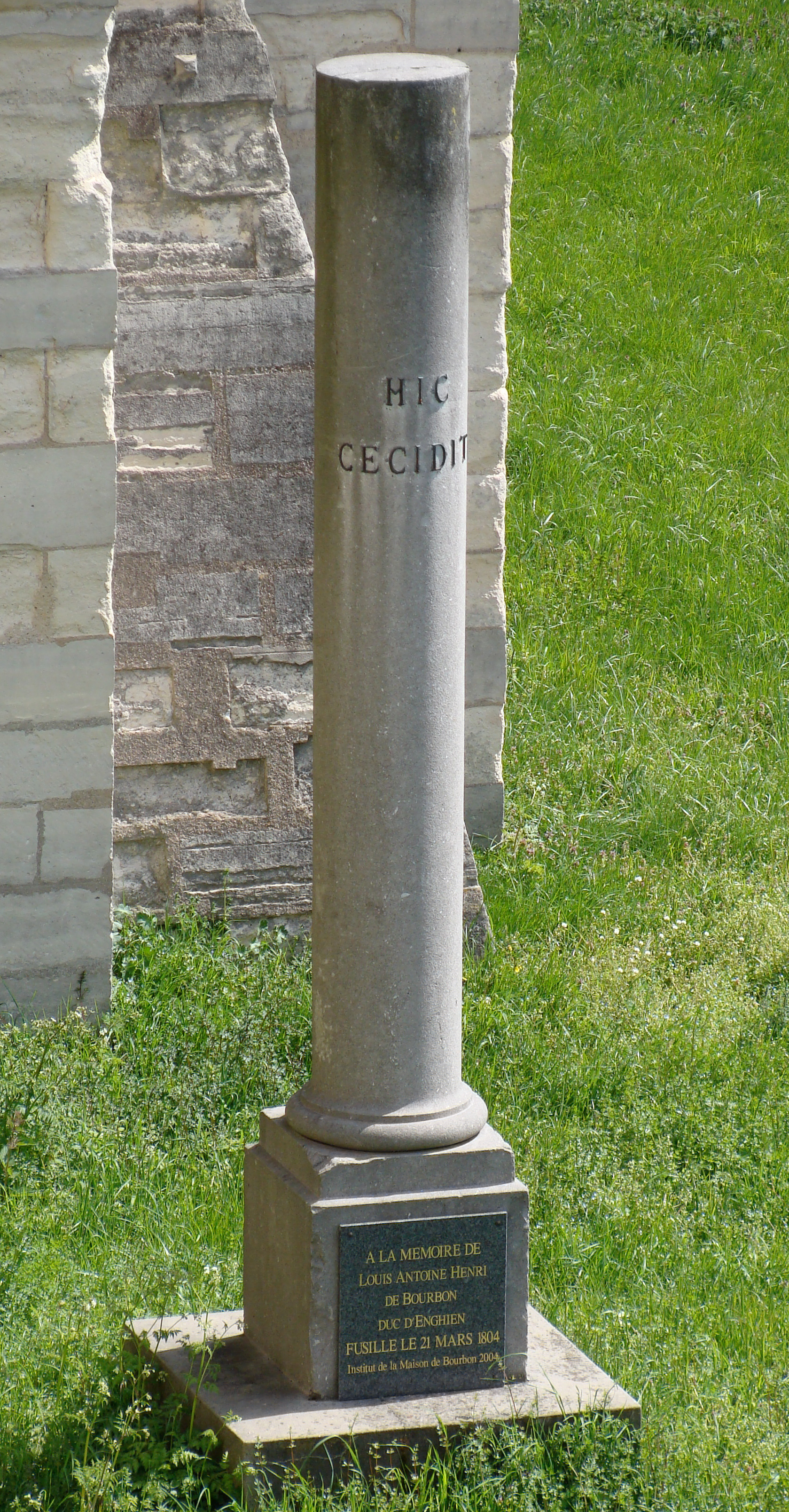 Monument to commemorate Louis Antoine de Bourbon, Duke of Enghien, executed by firing squad in 1804, in the moat of Vincennes Castle, near Paris.